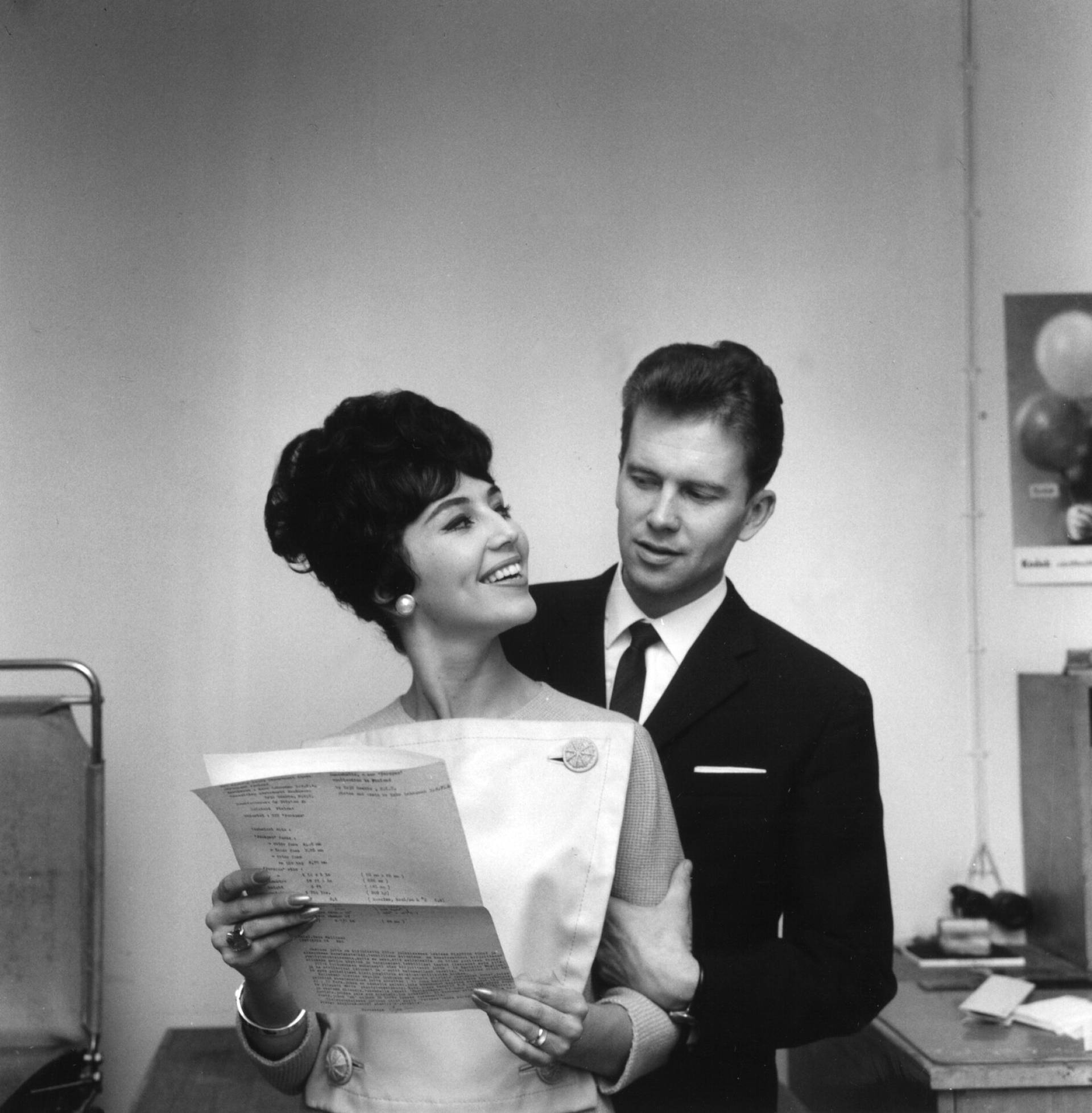 Photograph of the Finnish journalist Lenita Airisto (1937–) with her husband, member of parliament Ingvar S. Melin (1932–2011).